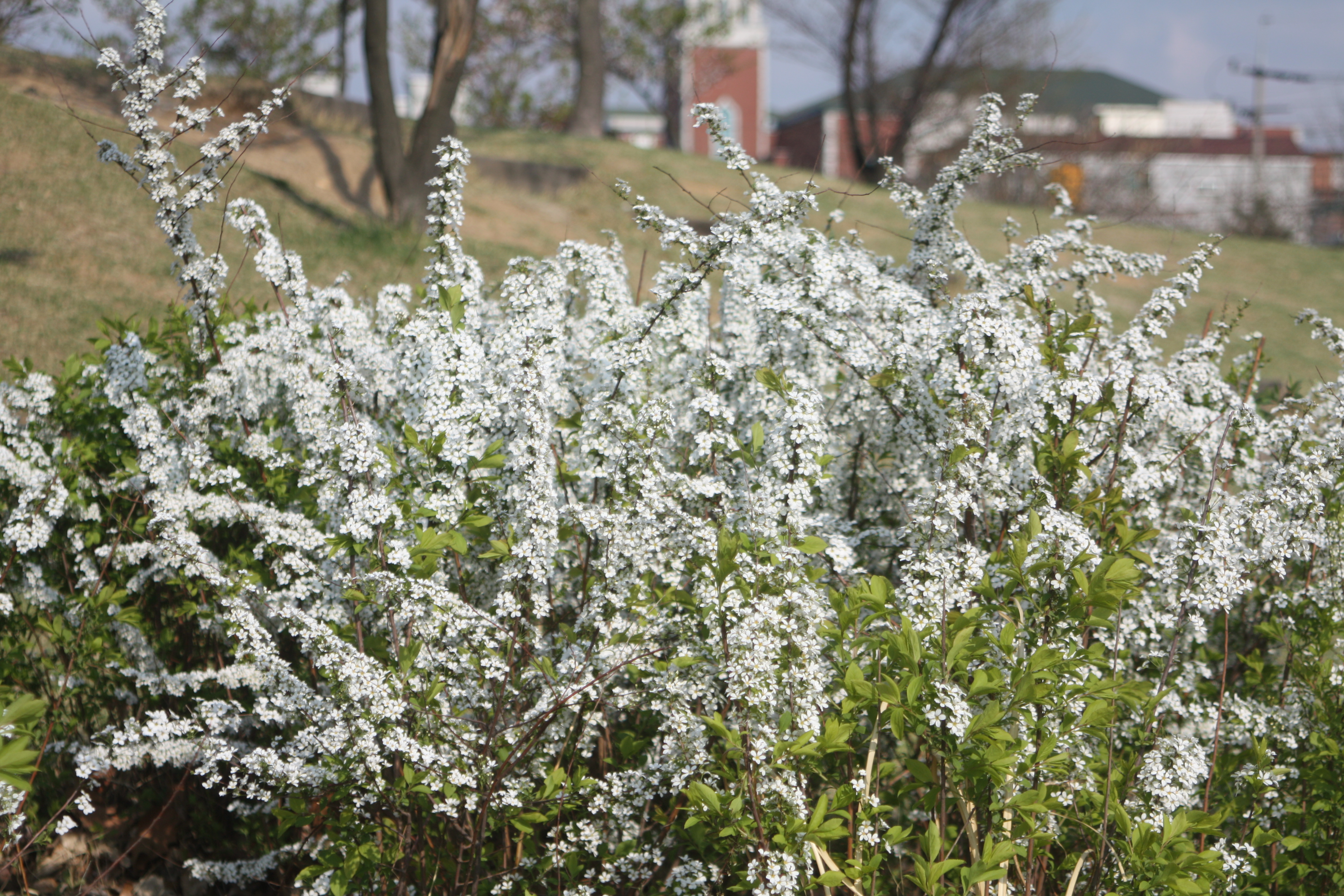 Spiraea prunifolia in Bupyung, Korea